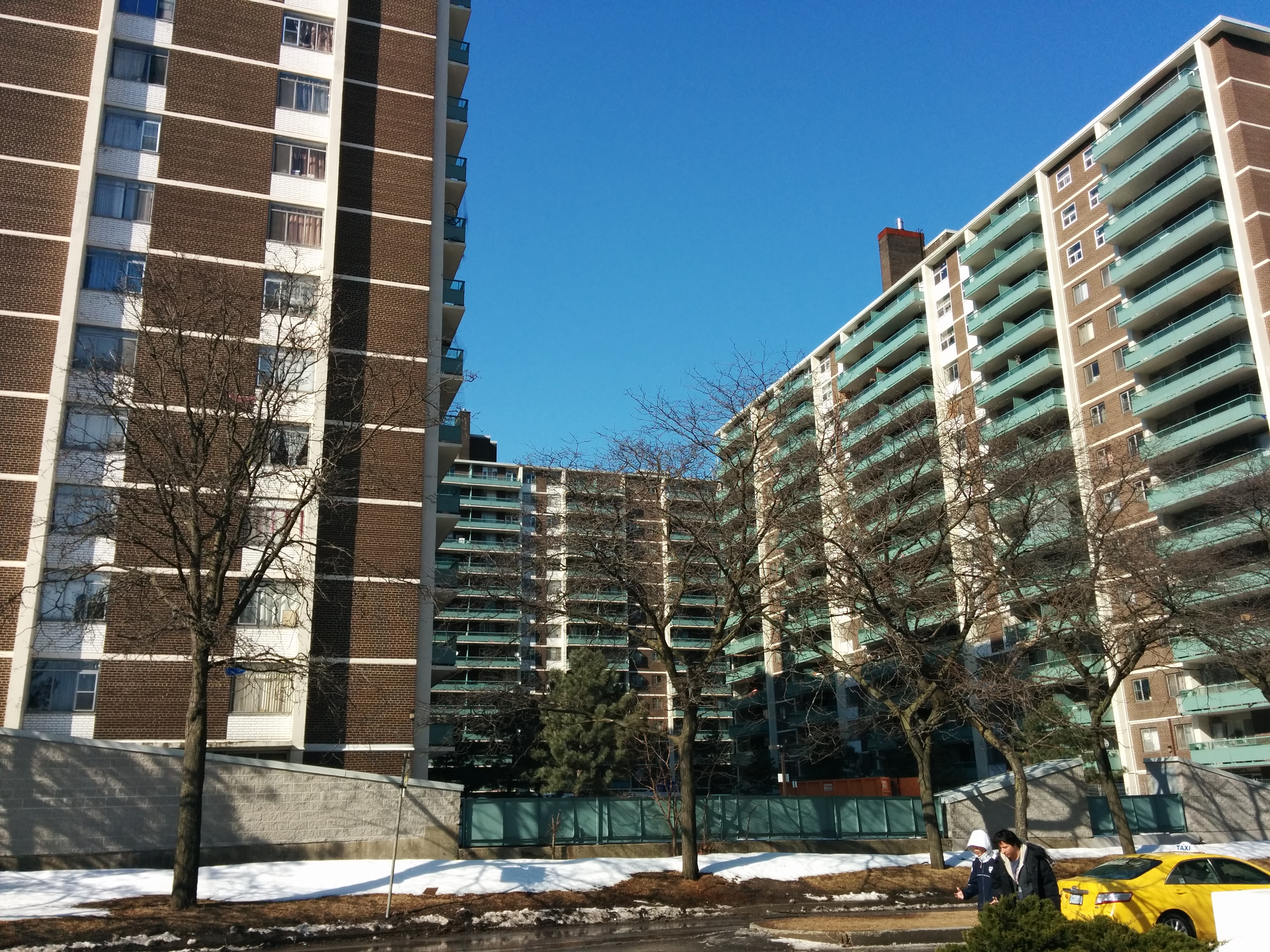 St. Jamestown high rises